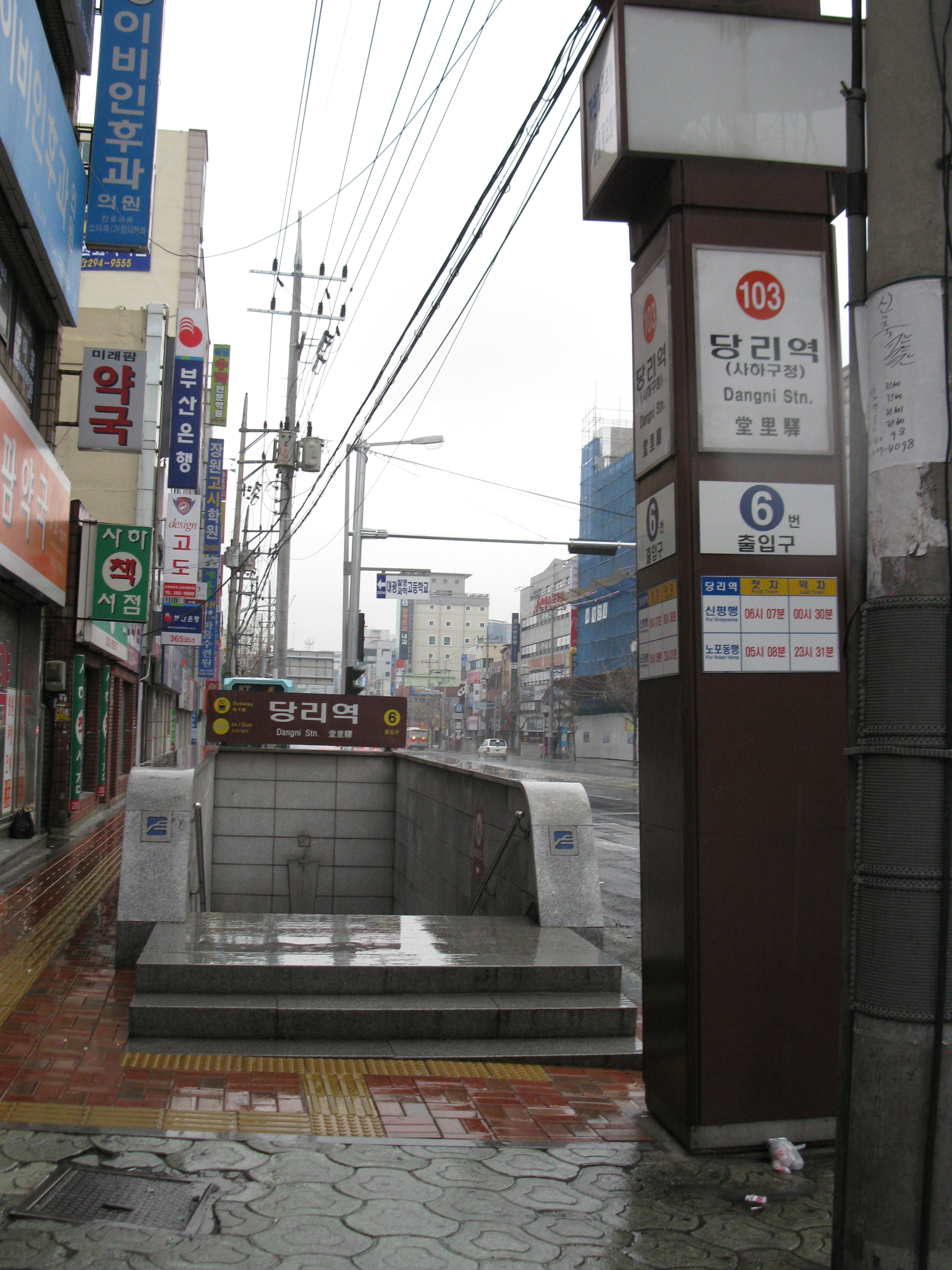 Dangni Station no.6 entrance (Busan Subway Line 1)